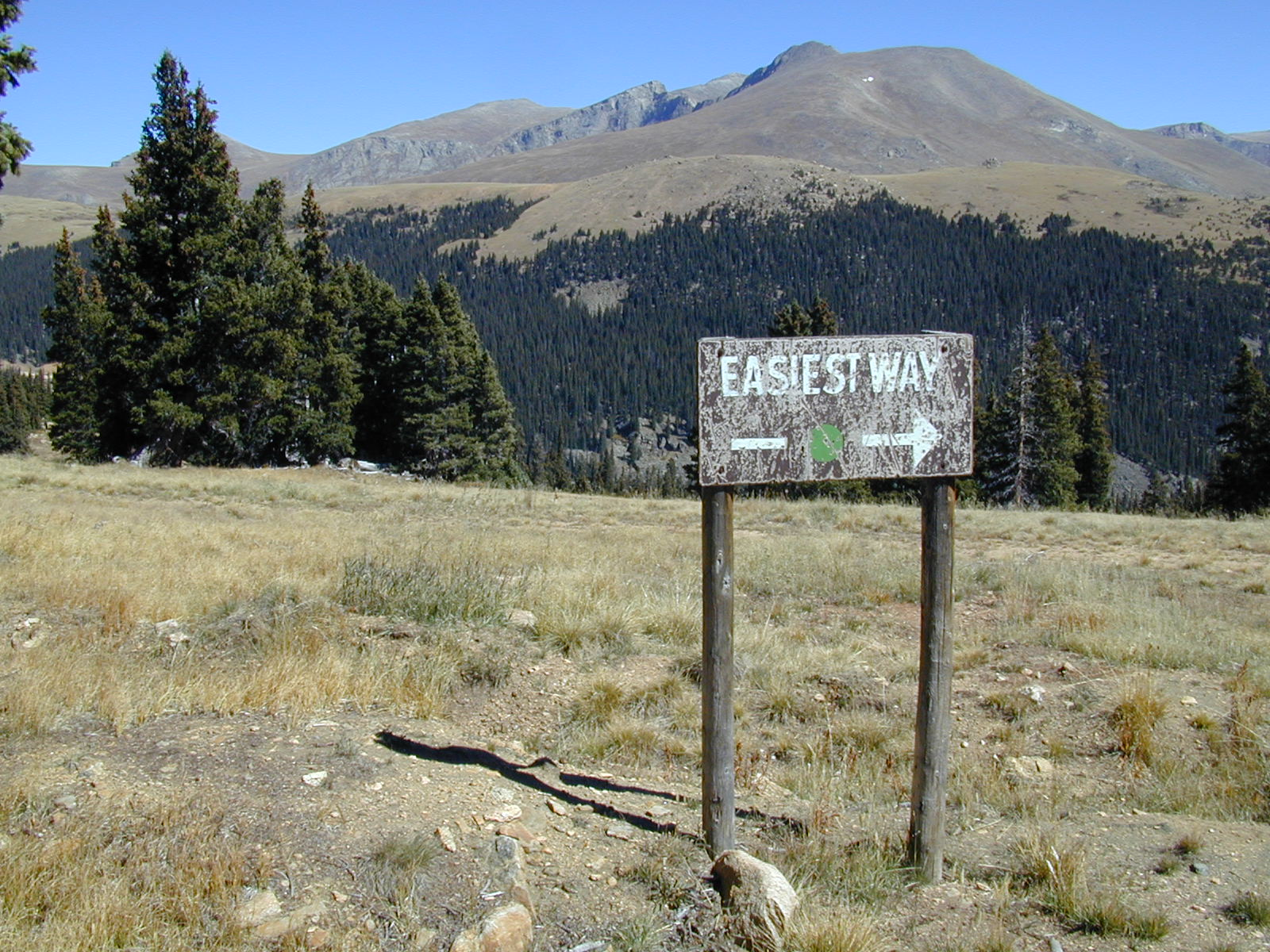 From the summit of Geneva Basin, ghost ski area